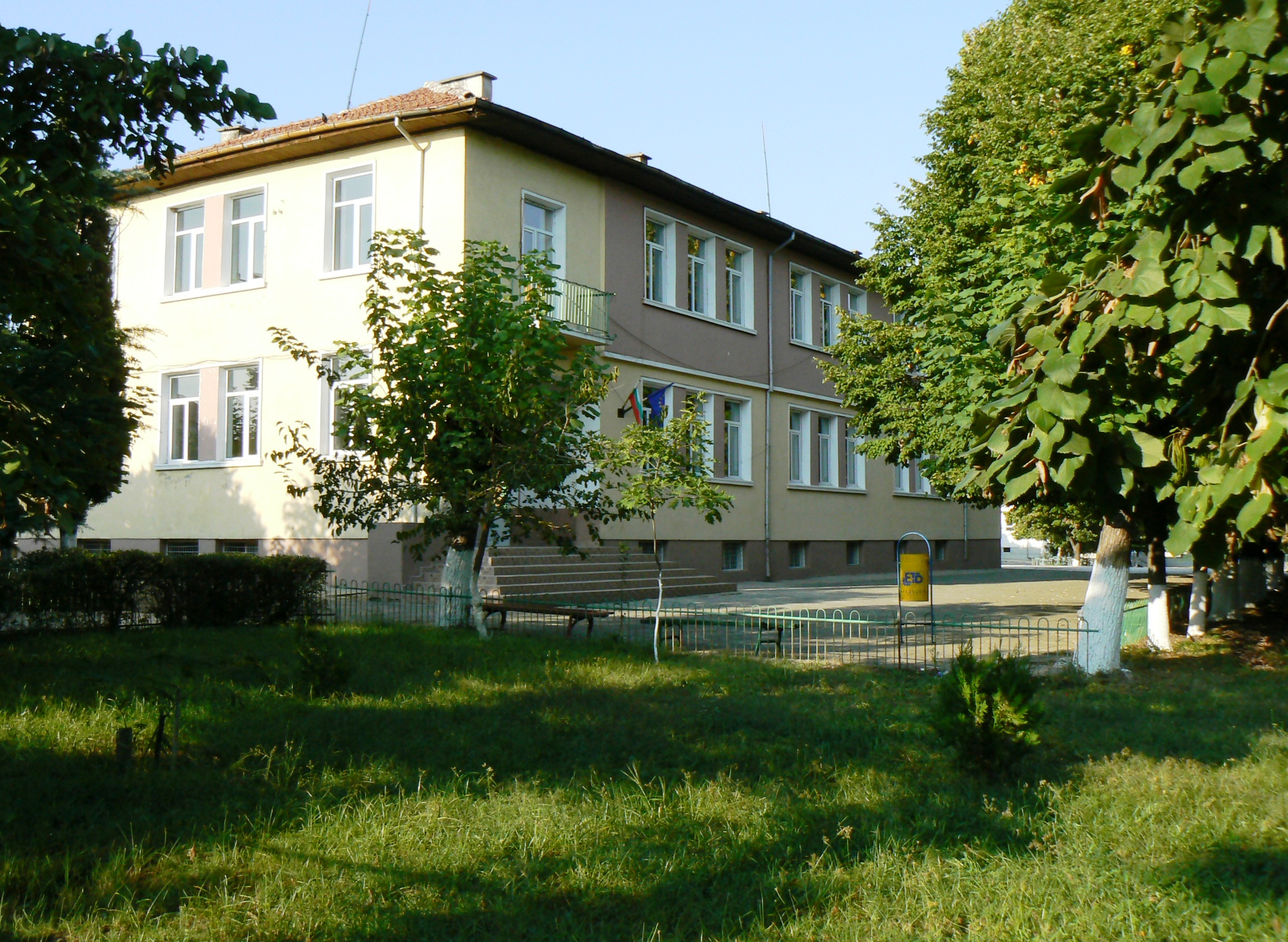 The school in Parvomay village, Blagoevgrad District, Bulgaria